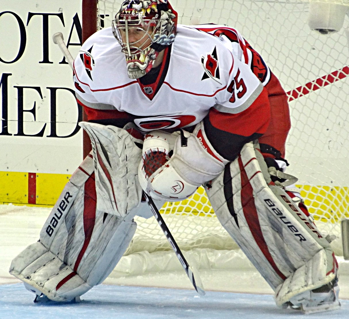 Carolina Hurricanes goaltender Justin Peters faces the Pittsburgh Penguins, April 27, 2013 at Consol Energy Center in Pittsburgh, PA.